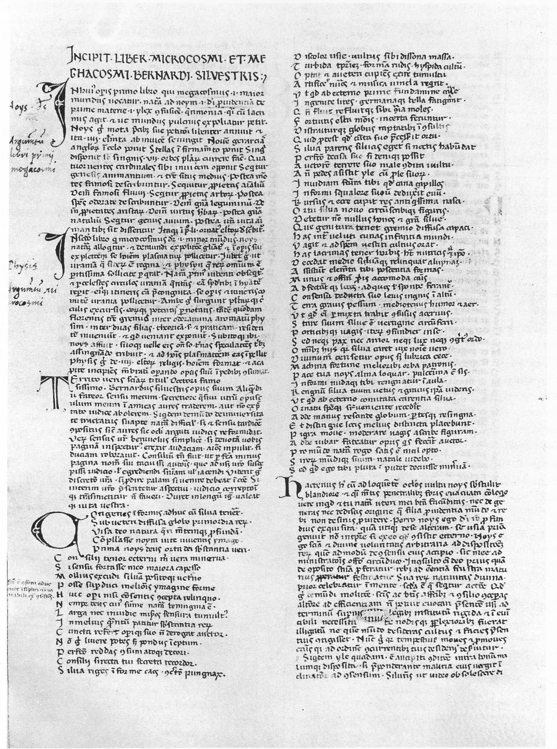 The beginning of the Cosmographia in the manuscript Florence, Biblioteca Medicea Laurenziana, Plut. 33.31, fol. 59v, copied by Giovanni Boccaccio.